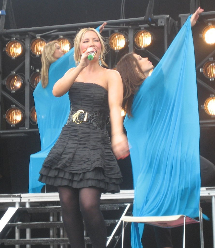 Heidi Range on stage during the Vodafone TBA concert in Edinburgh on June 1st 2008.